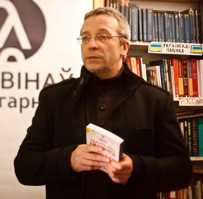 Arthur Klinov (born 1965 AD) - a belorussian photographer, desighner. Minsk city (Belarus), 2014 AD